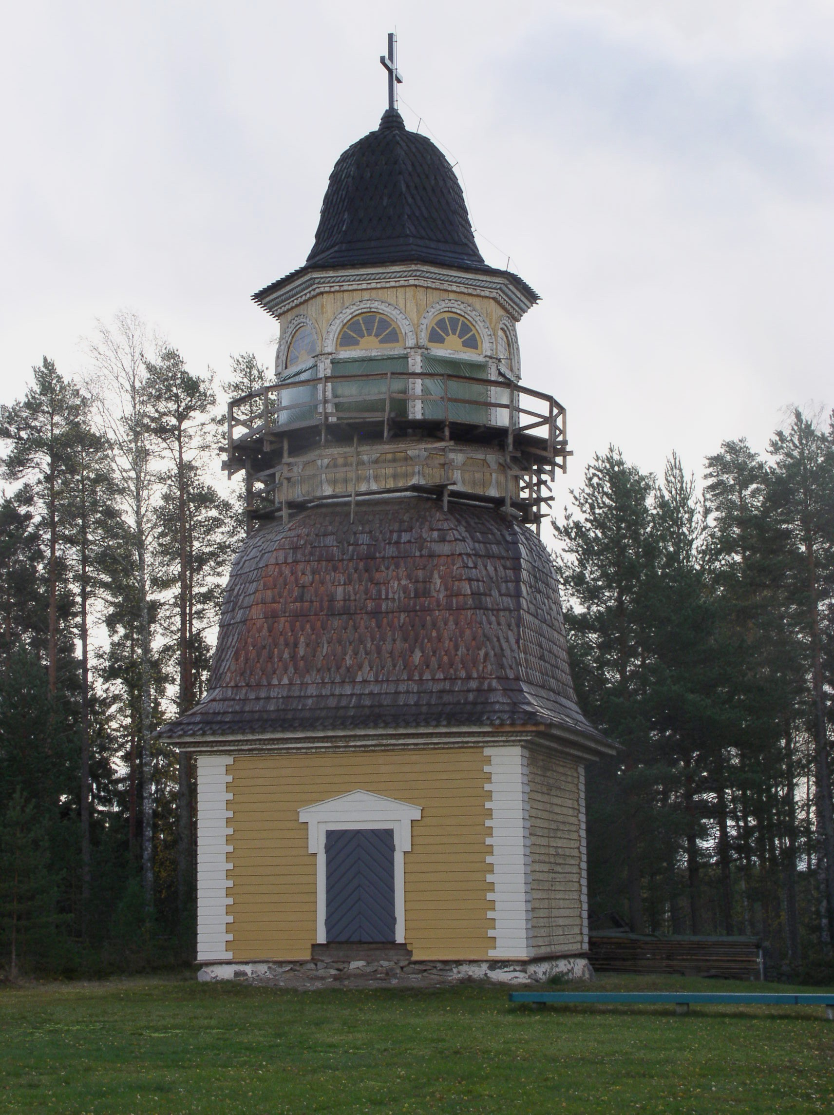 Bell tower of the Kesälahti church in Kesälahti, Finland.